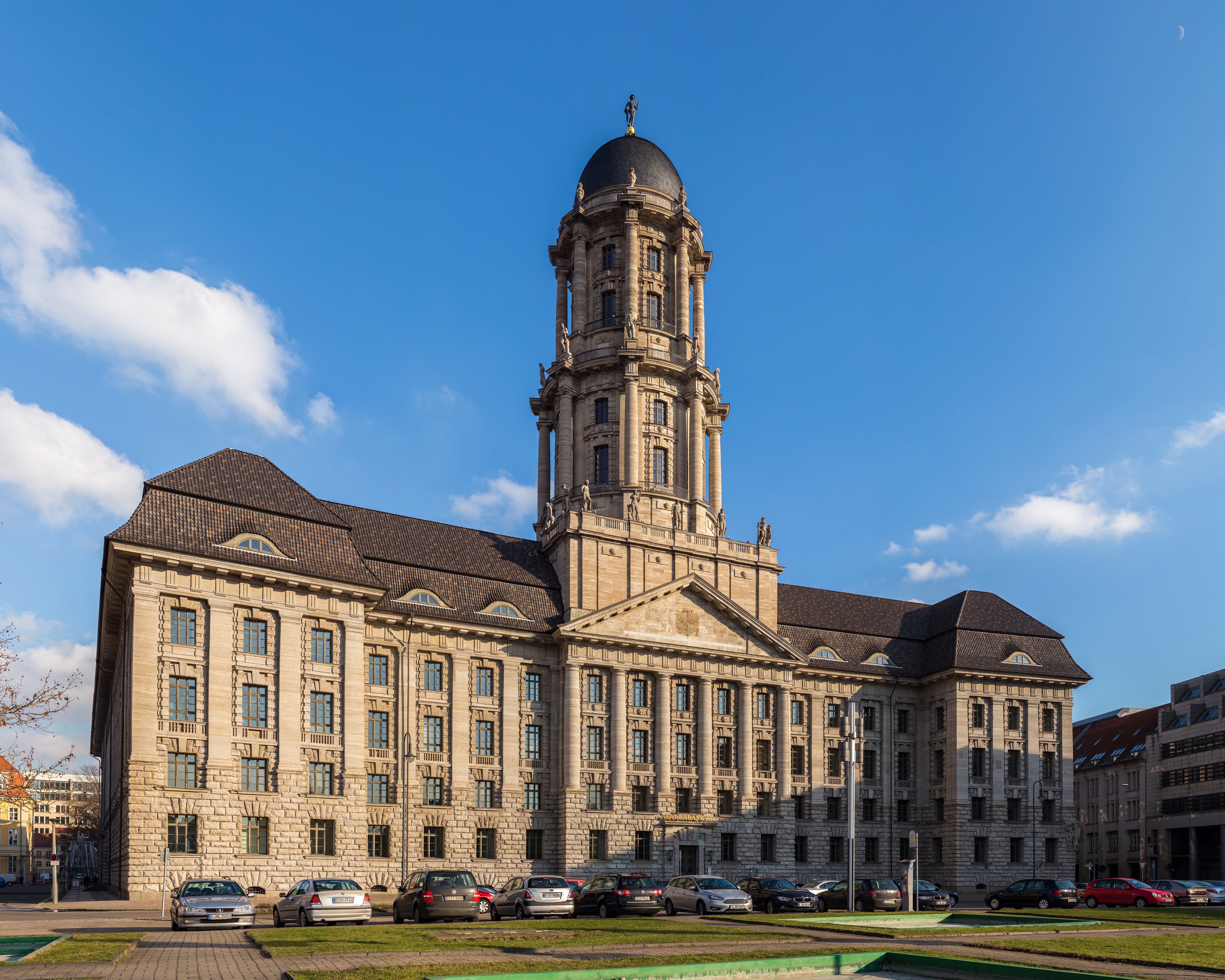 Altes Stadthaus (Berlin) as seen from west.